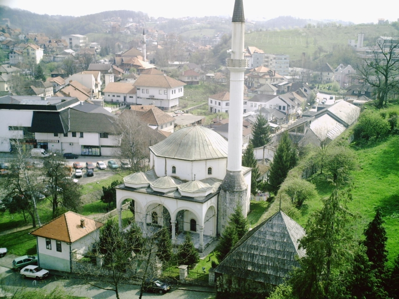 Husejnija Mosque in Gradačac, Bosnia and Herzegovina.